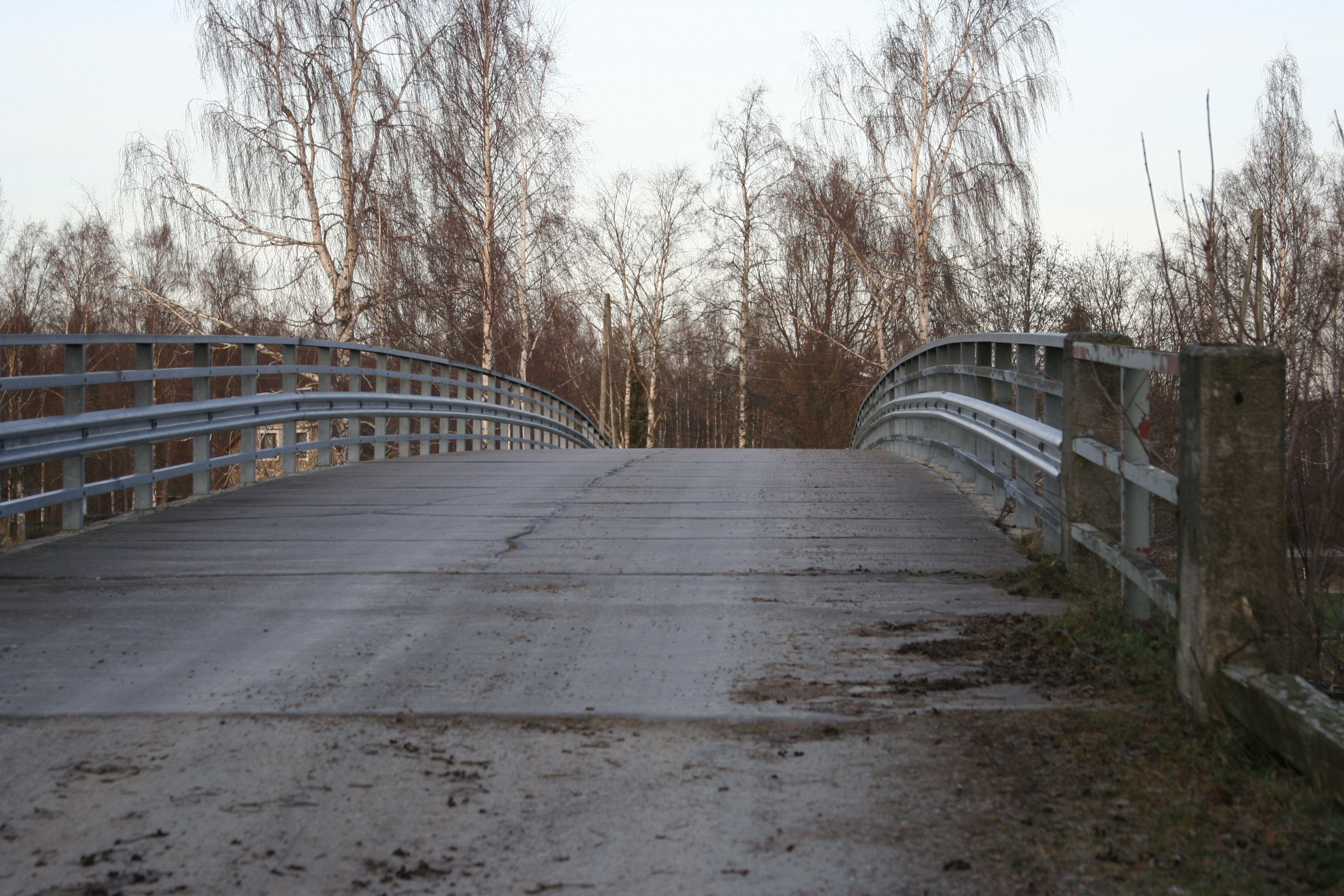 Alvettula museum bridge, Alvettula, Hauho, Hämeenlinna, Finland. Deck. Bridge is made of hollow concrete building-blocs. Completed in 1916.